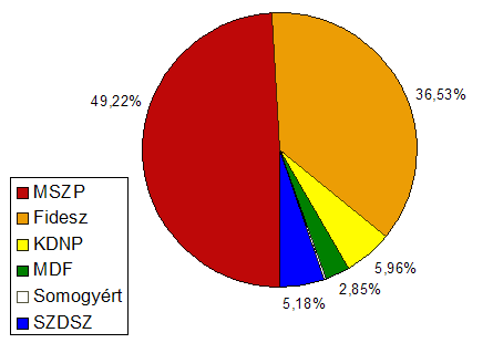 Elections in Hungary, 2006